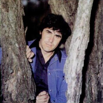 Trade ad for Mel Street's single "Borrowed Angel". To better adapt it to his respective Wikipedia article, the ad was cropped and cleaned in a graphics editing program. The original can be viewed at the source below.